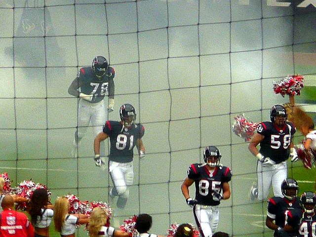 Houston Texans players come out for pre-game intro